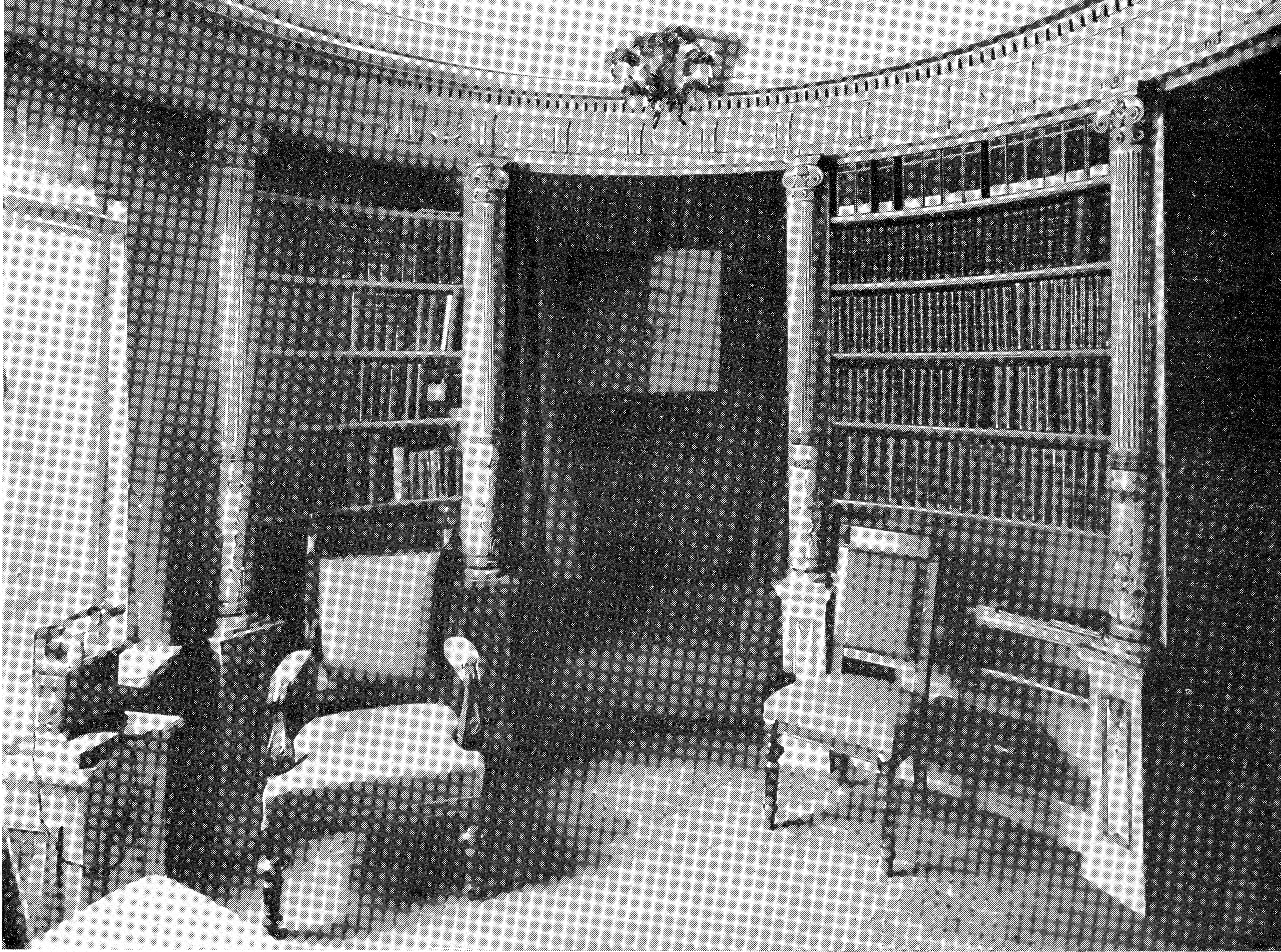 Kalmar Nation, Uppsala. First house 1913-1957. Round room 1915.